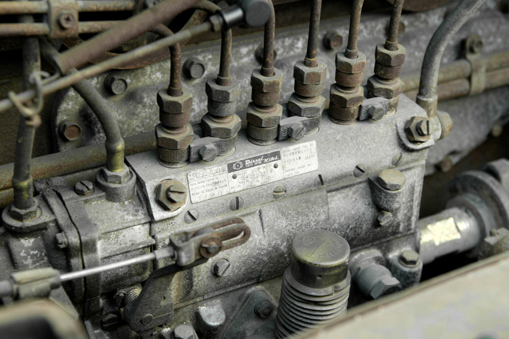 Diesel Kiki ( ja ジーゼル機器 ) Bosch A-type injection pump on Isuzu DA120 engine.